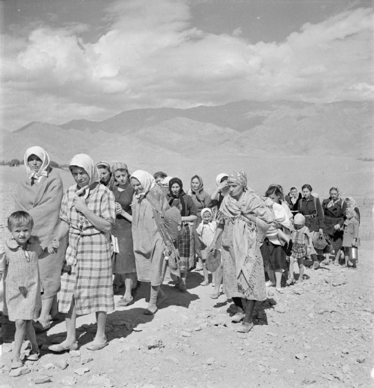 Evacuation of Polish Civilians From the Soviet Union To Persia, 1942 Group of Polish refugees, mostly women and children, tramping over the mountains from Russia into Persia. They carry whatever they can in the way of personal belongings.